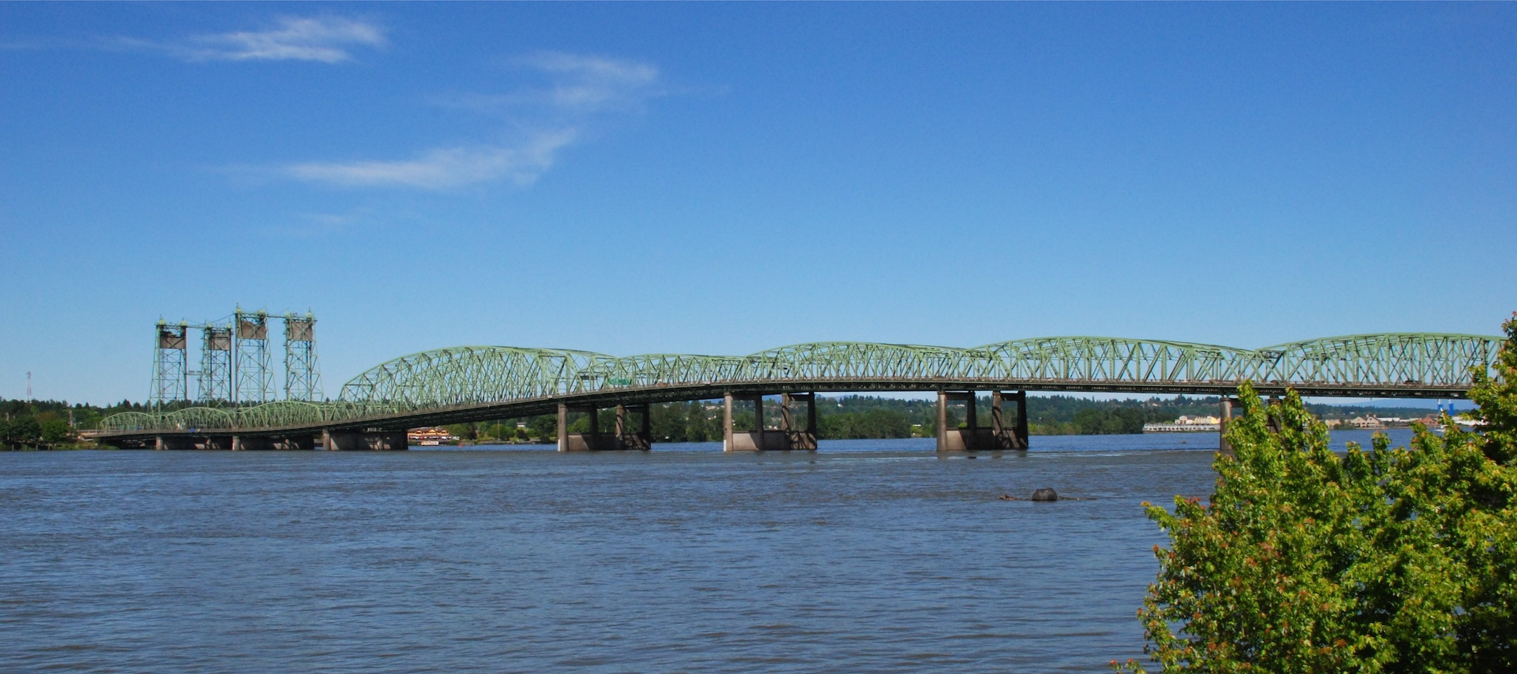 The Interstate Bridge, across the Columbia River, carries the Interstate 5 freeway and connects Portland, Oregon with Vancouver, Washington. This photo, taken from the river's south shore, in Oregon, shows almost the full length of the bridge, which is actually two bridges side by side - one built in 1916–17 and now for northbound traffic only, the other a matching one built in 1957–58 and carrying southbound traffic only. The two bridges have vertical-lift sections at the northern end. The "humped" section visible on the right was included in the 1958 span (the one nearest the photographer) when built, and was added to the 1917 span in 1959; the bridge originally remained at one level (or flat) all the way across the river.